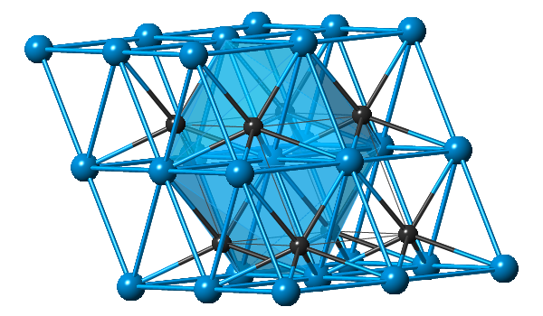 α-Tungsten carbide in the unit cell, hexagonal, icositetrahedron (center at W), P6m2, 1 molecule in the cell.